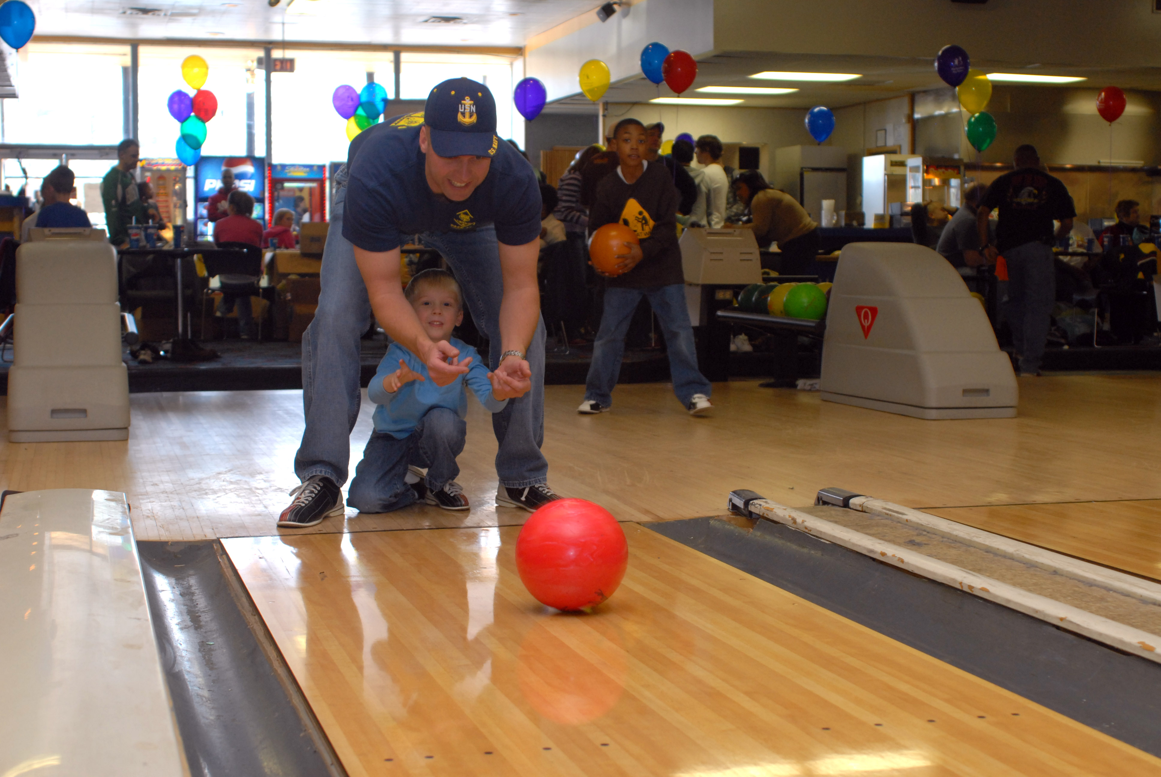 Norfolk, Va. (Feb. 10, 2007) - Senior Chief Gas Turbine System Technician Mike Wroten, assigned to guided missile destroyer USS Bainbridge (DDG 96), helps his son bowl at the Big Brothers Big Sisters of South Hampton Roads, "For Kids' Sake, Bowl" event at the AMF Military Lanes in Norfolk. The event brought together more than a dozen Navy volunteers from nine sea and shore commands from throughout the mid-Atlantic region who help mentor at-risk and under privileged children. U.S. Navy photo by Mass Communication Specialist Seaman Tyler Jones (RELEASED)